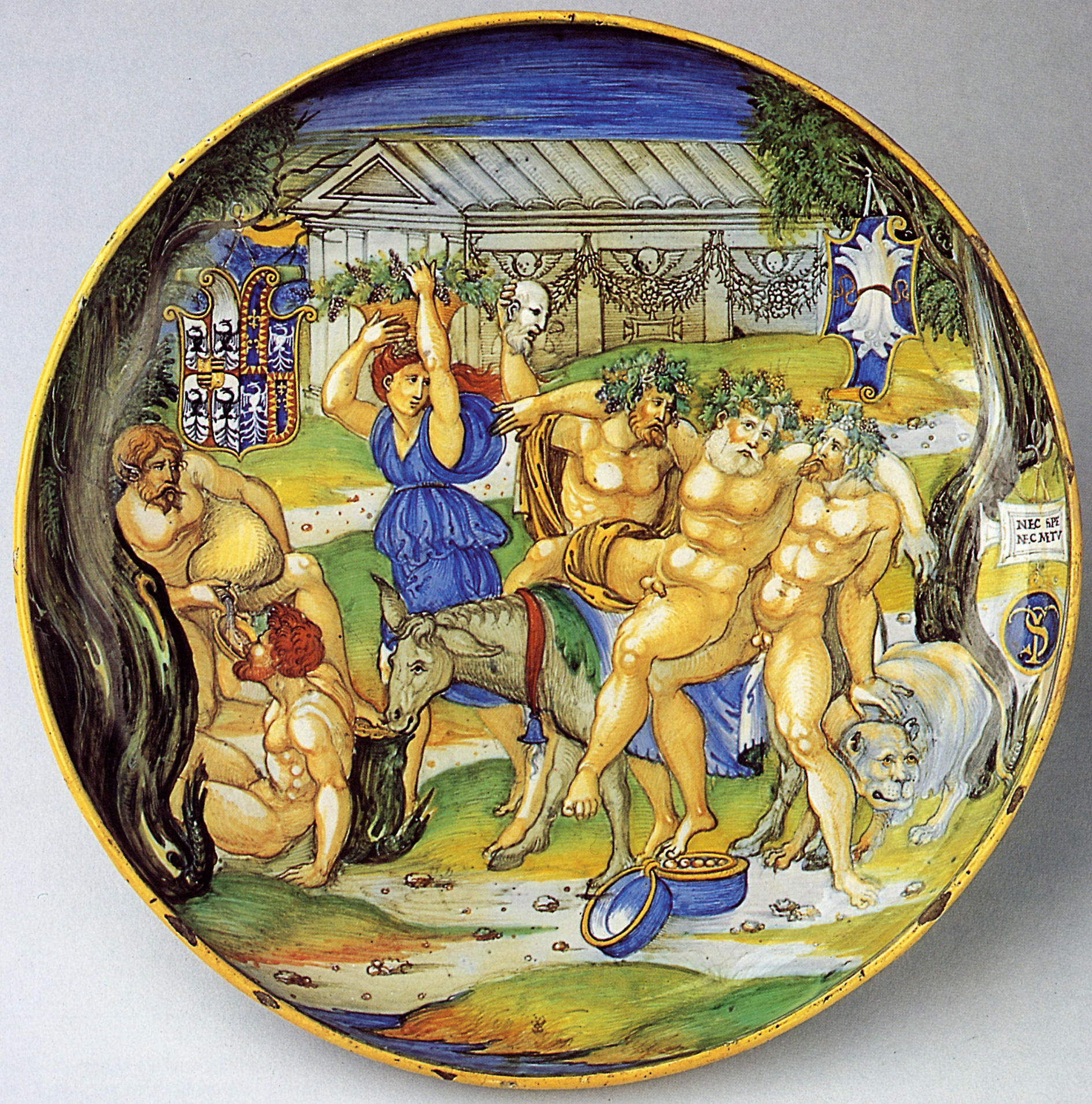 Plate; Ceramics-Pottery